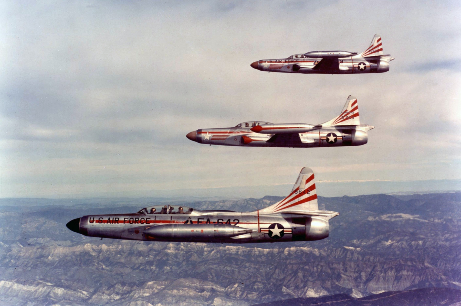 Three U.S. Air Force Lockheed F-94C Starfire interceptors (s/n 51-5642, 50-1063, and 51-5549) of the 354th Fighter Interceptor Squadron based at Oxnard Air Force Base, California (USA), in flight on 19 June 1956.